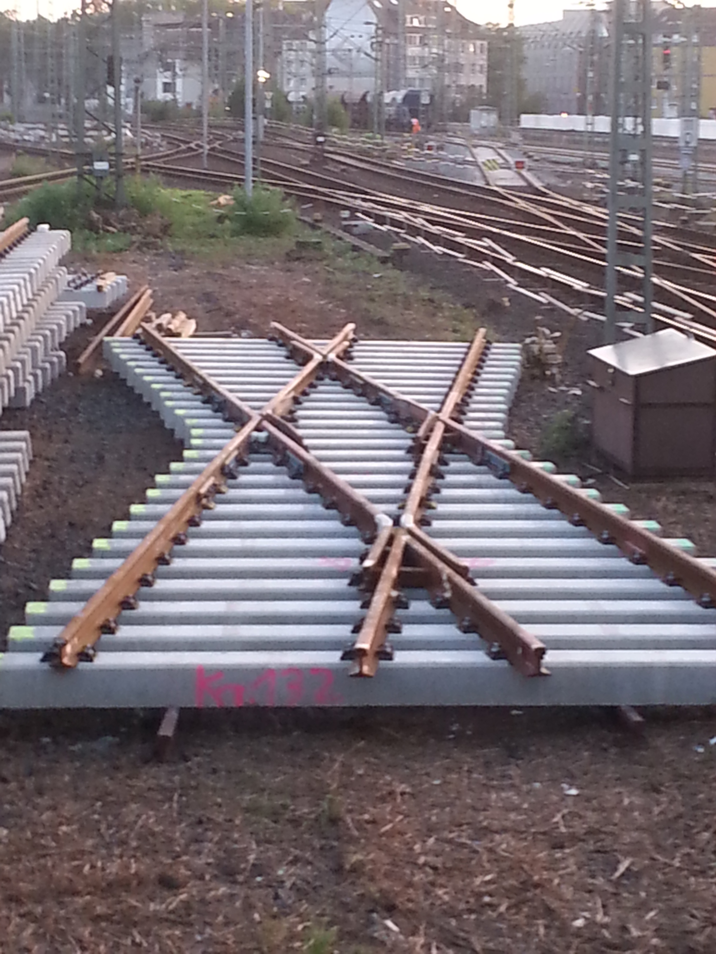 railway switch with concrete tie, Dusseldorf central station, 2016